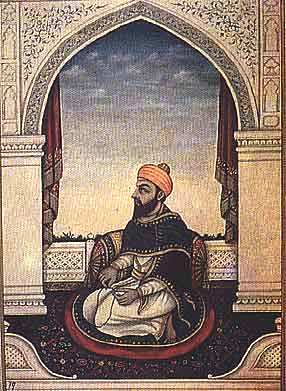 Fakir Azizuddin / Faqir Azizuddin